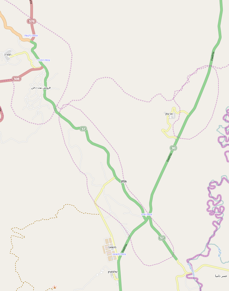 Map of B57 Israel